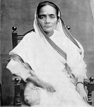 Kasturba, wife of Gandhi, 1915.